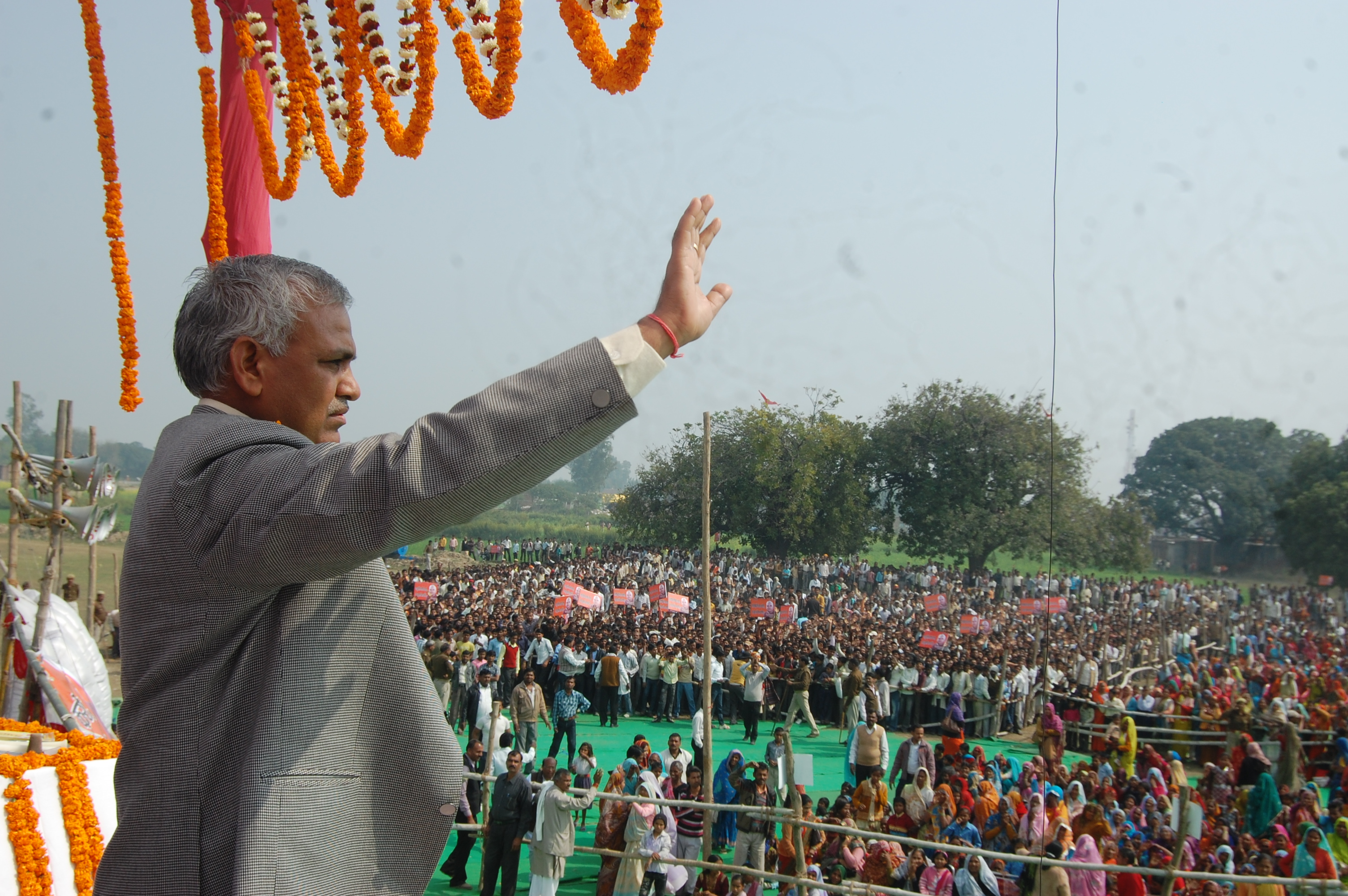 in a rally